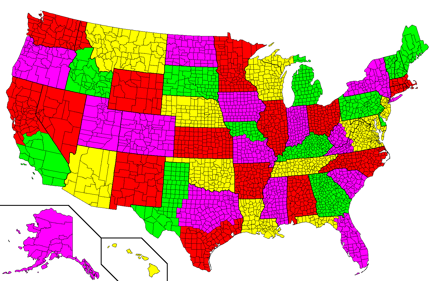 Map of the districts of the Assemblies of God in the United States. States or portions of states that are colored the same and are adjacent to each other are in the same district.